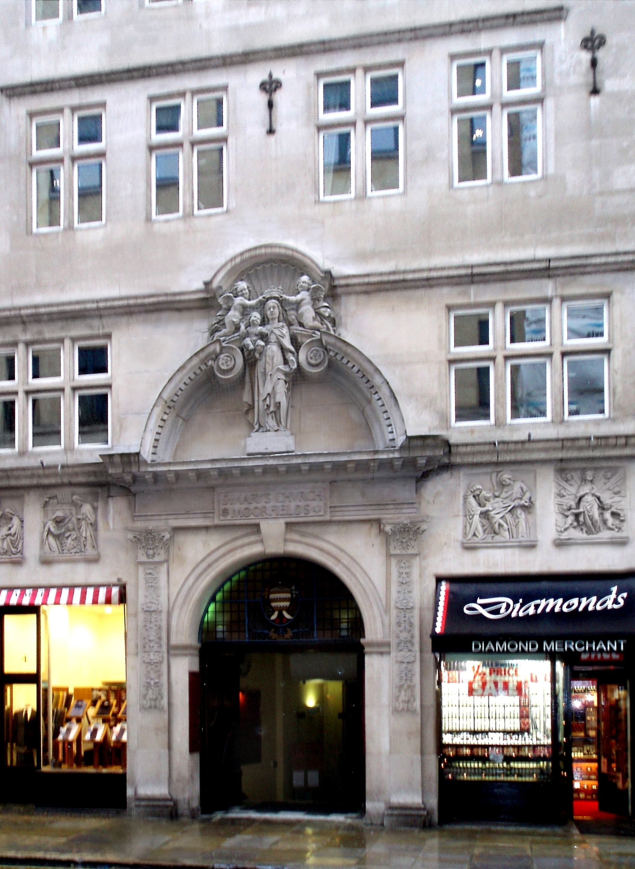 Photo taken 23rd Aug 2007 on Eldon Street, Near Liverpool Street Station. This building was designed by the London architect George Sherrin.